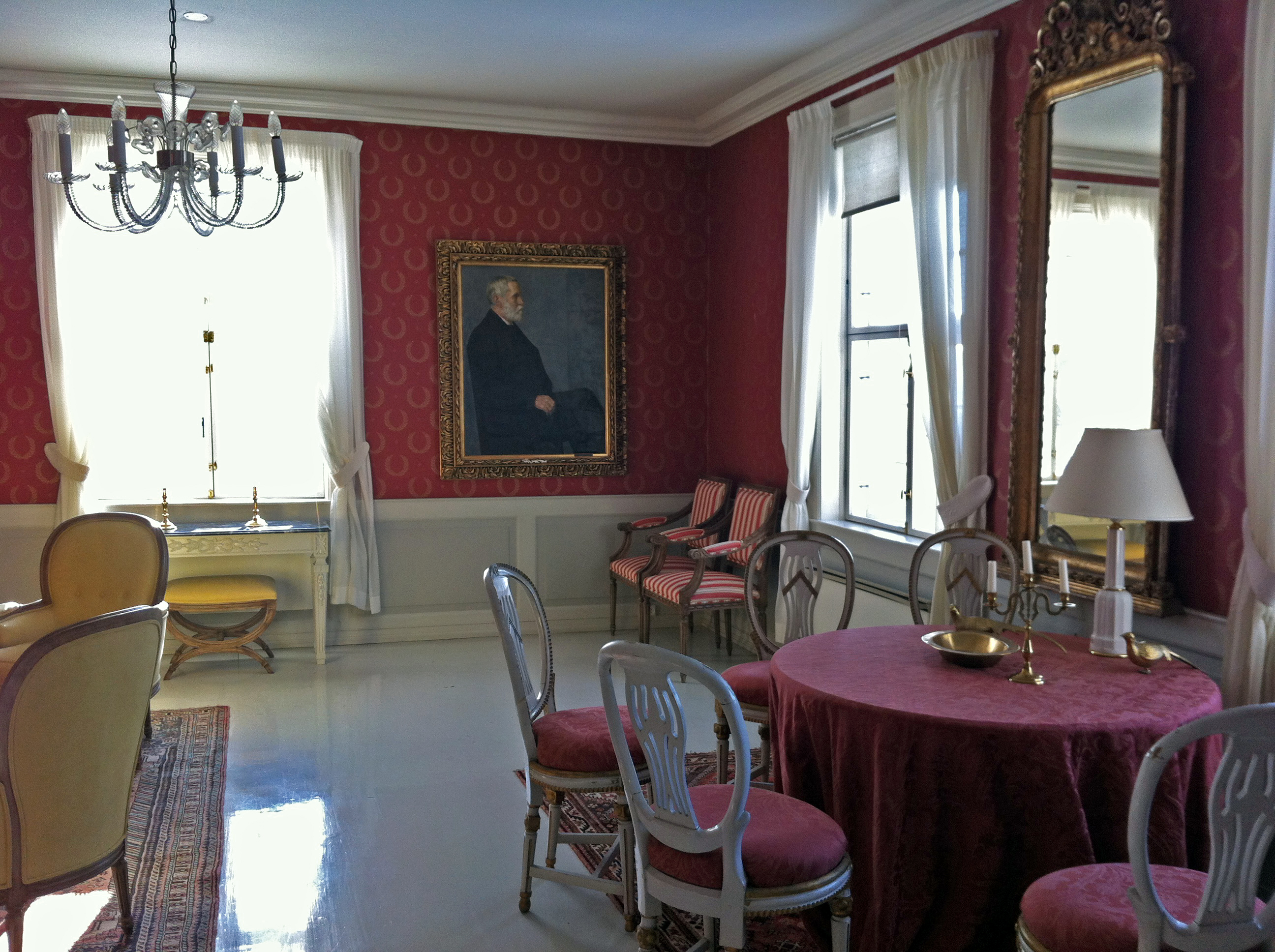 Corner room, first floor. Lerchendal manor (Lerchendal gård), Trondheim, Norway